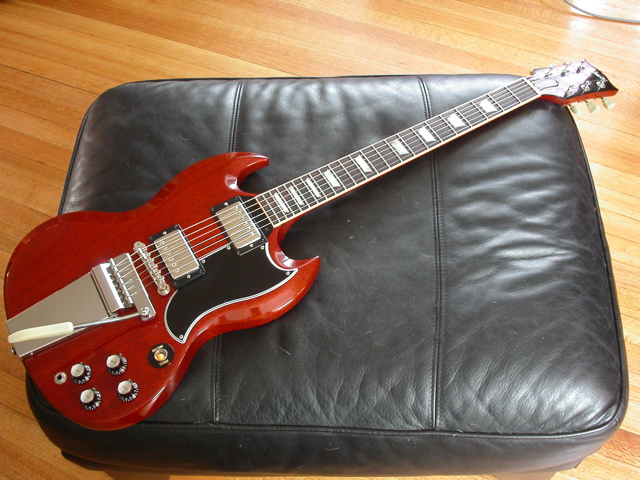 Gibson SG/LP